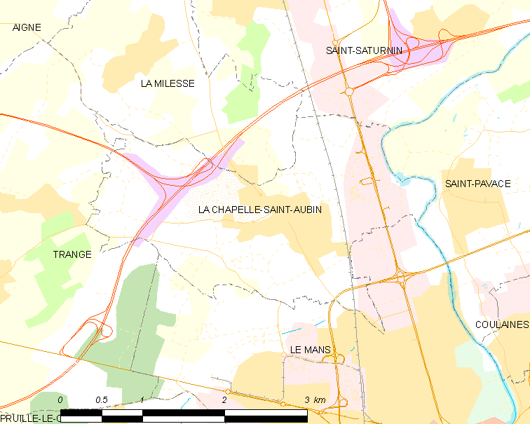 Map of French municipality